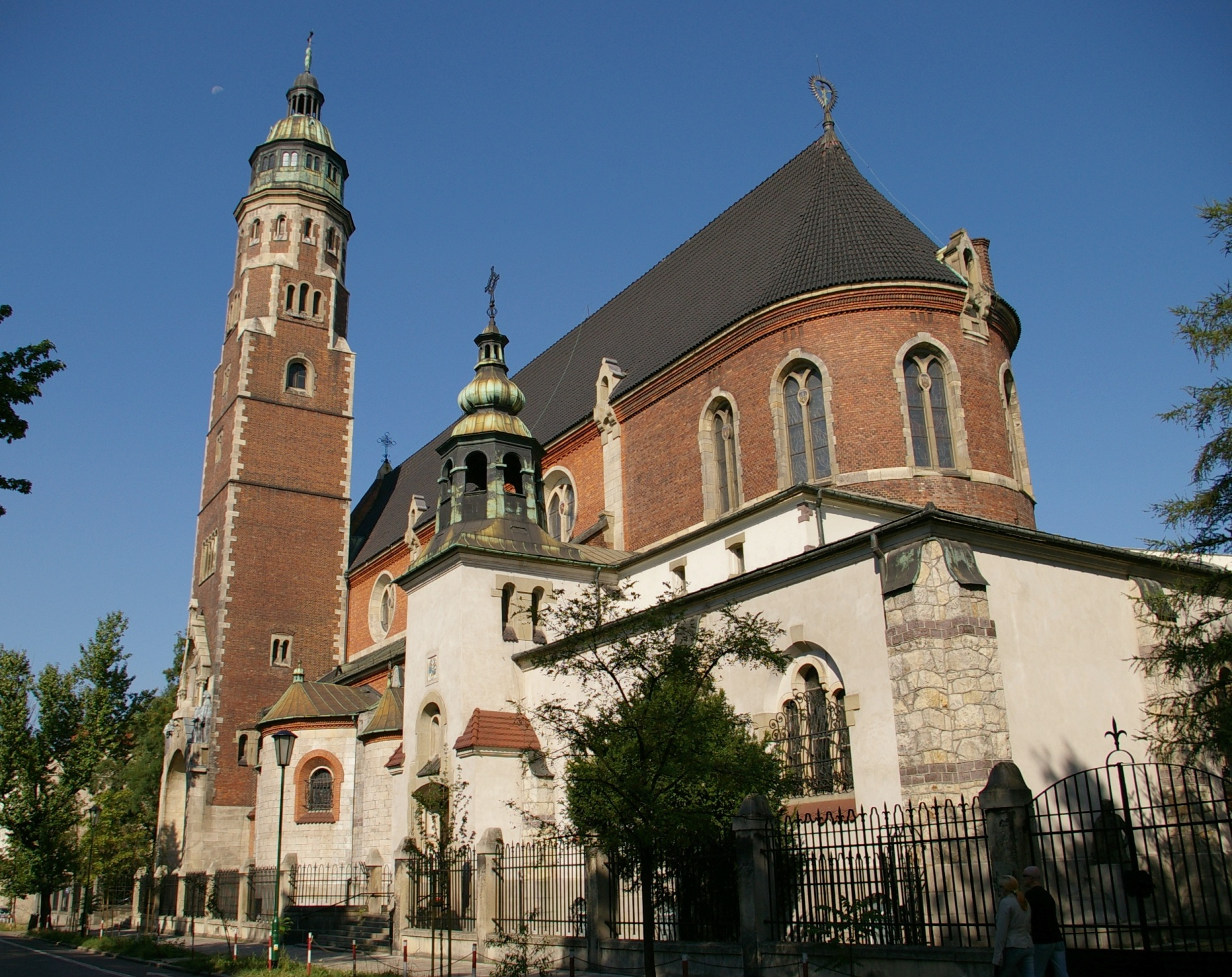 Basilica of the Sacred Heart of Jesus in Krakow (Poland), Kopernika street 26